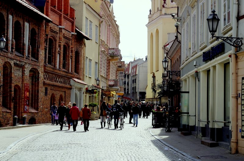 Pilies street in Vilnius